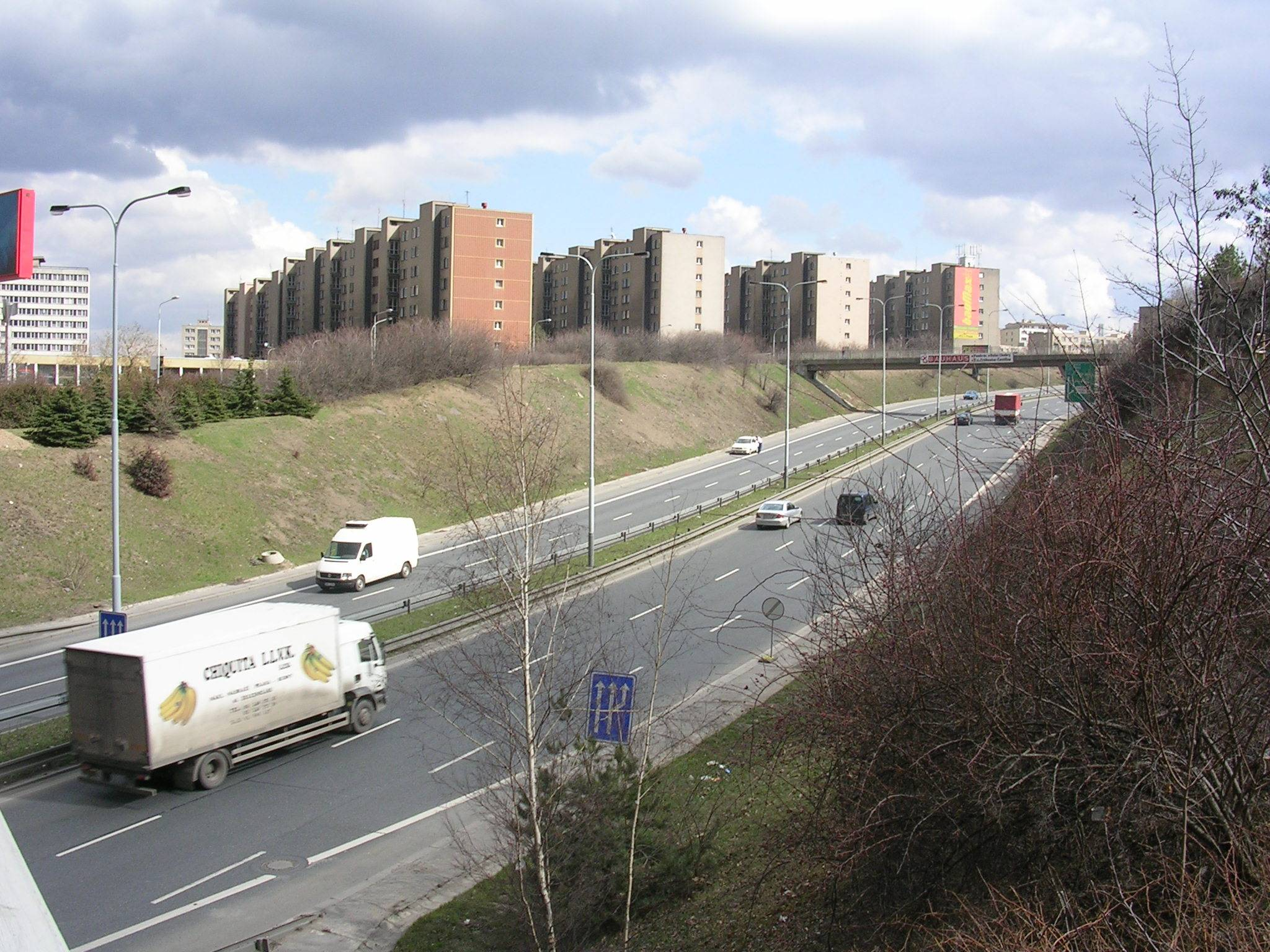 Záběhlice-Spořilov, Prague, the Czech Republic.